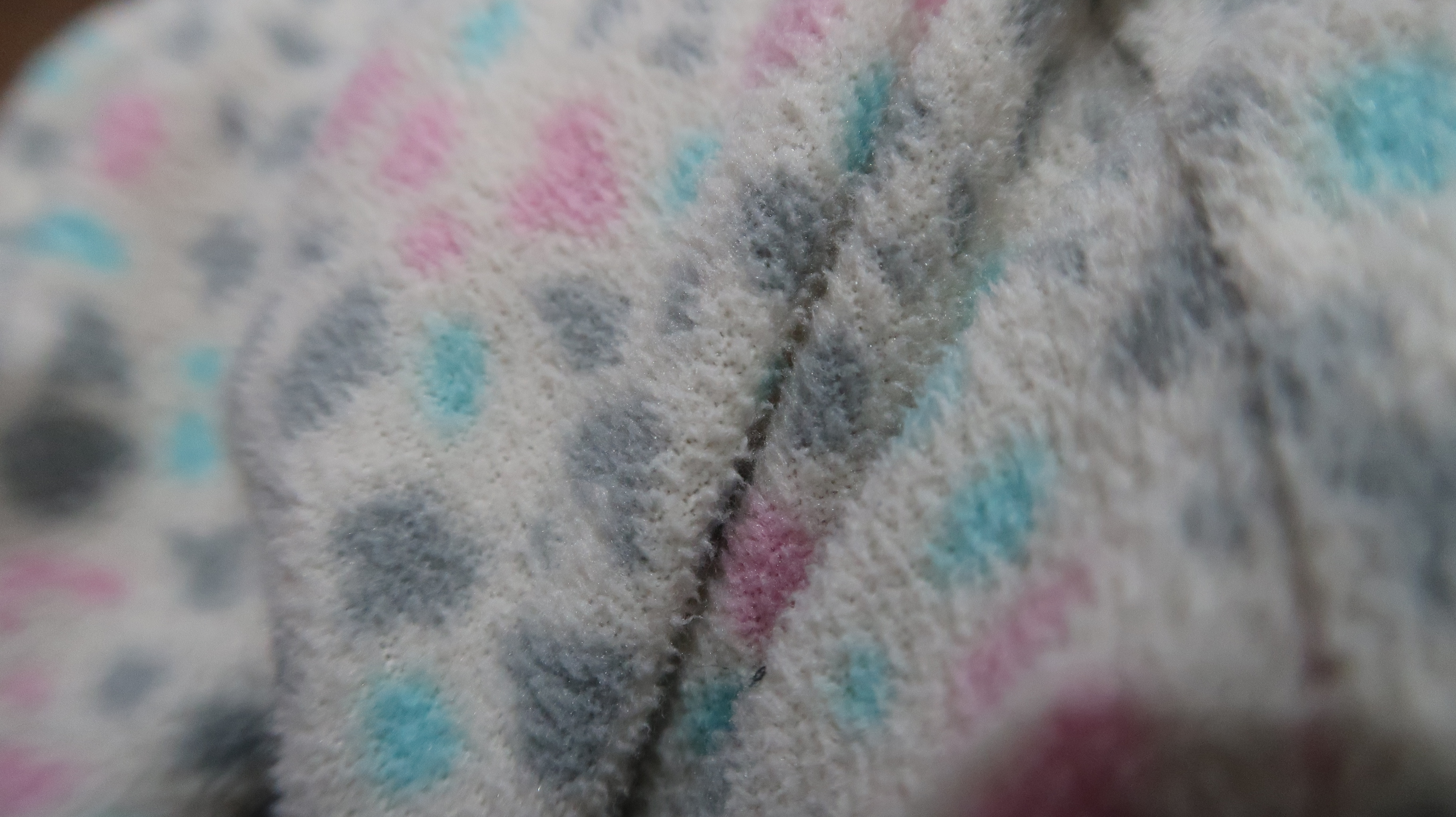 Textured